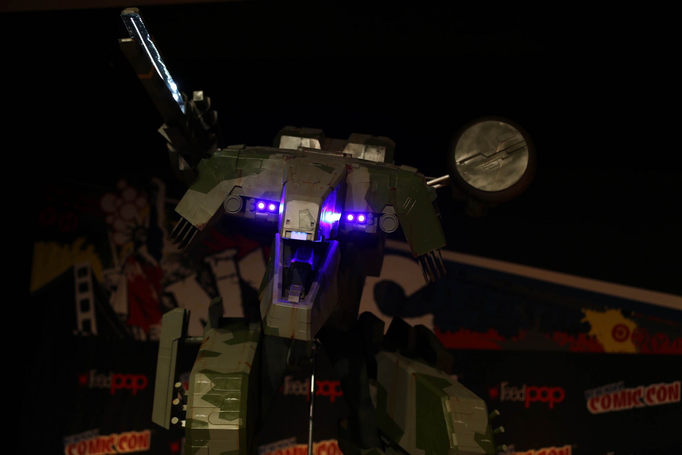 Cosplay at the 2014 New York Comic Con.